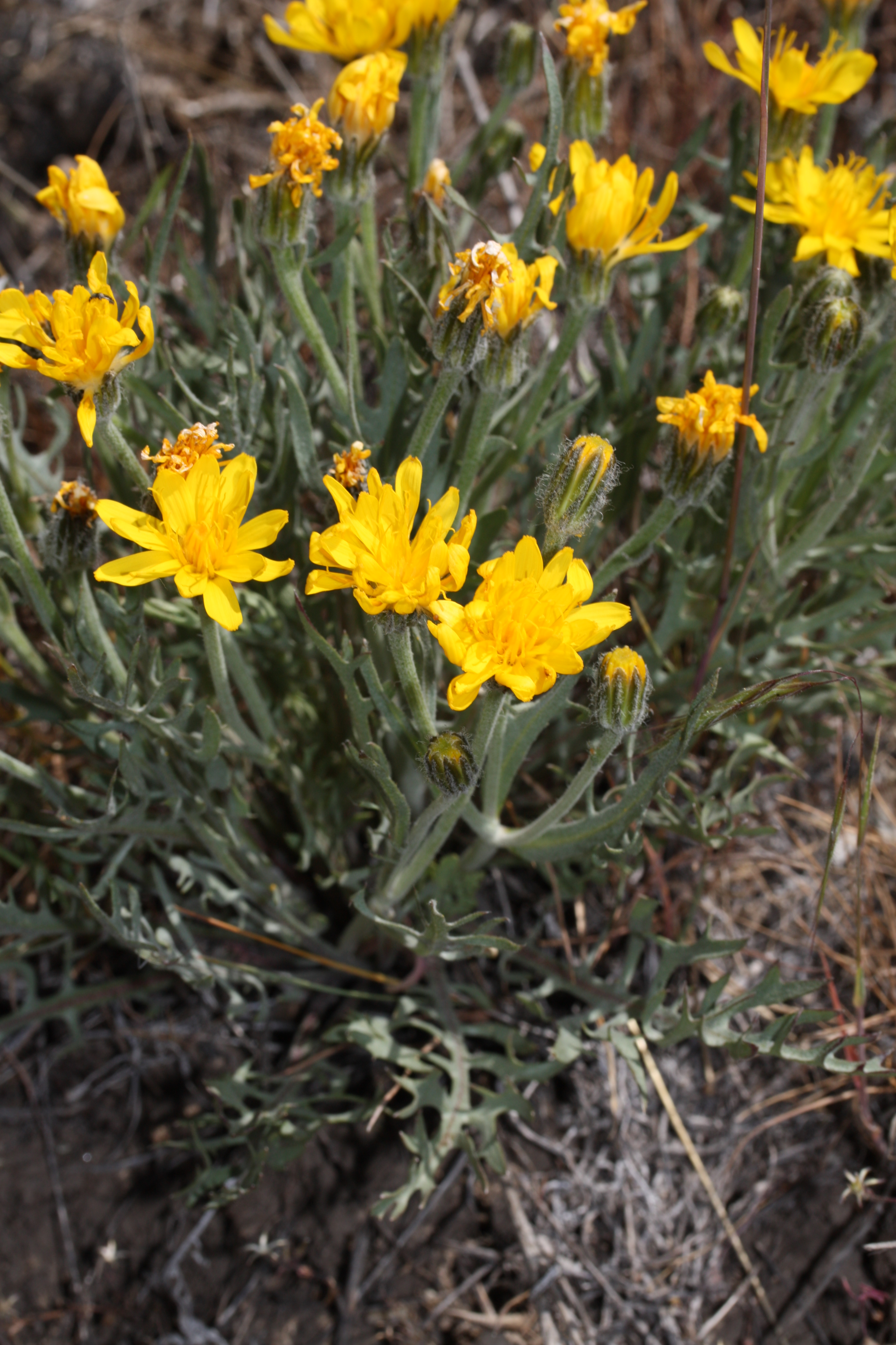 Modoc Hawksbeard, Low Hawksbeard